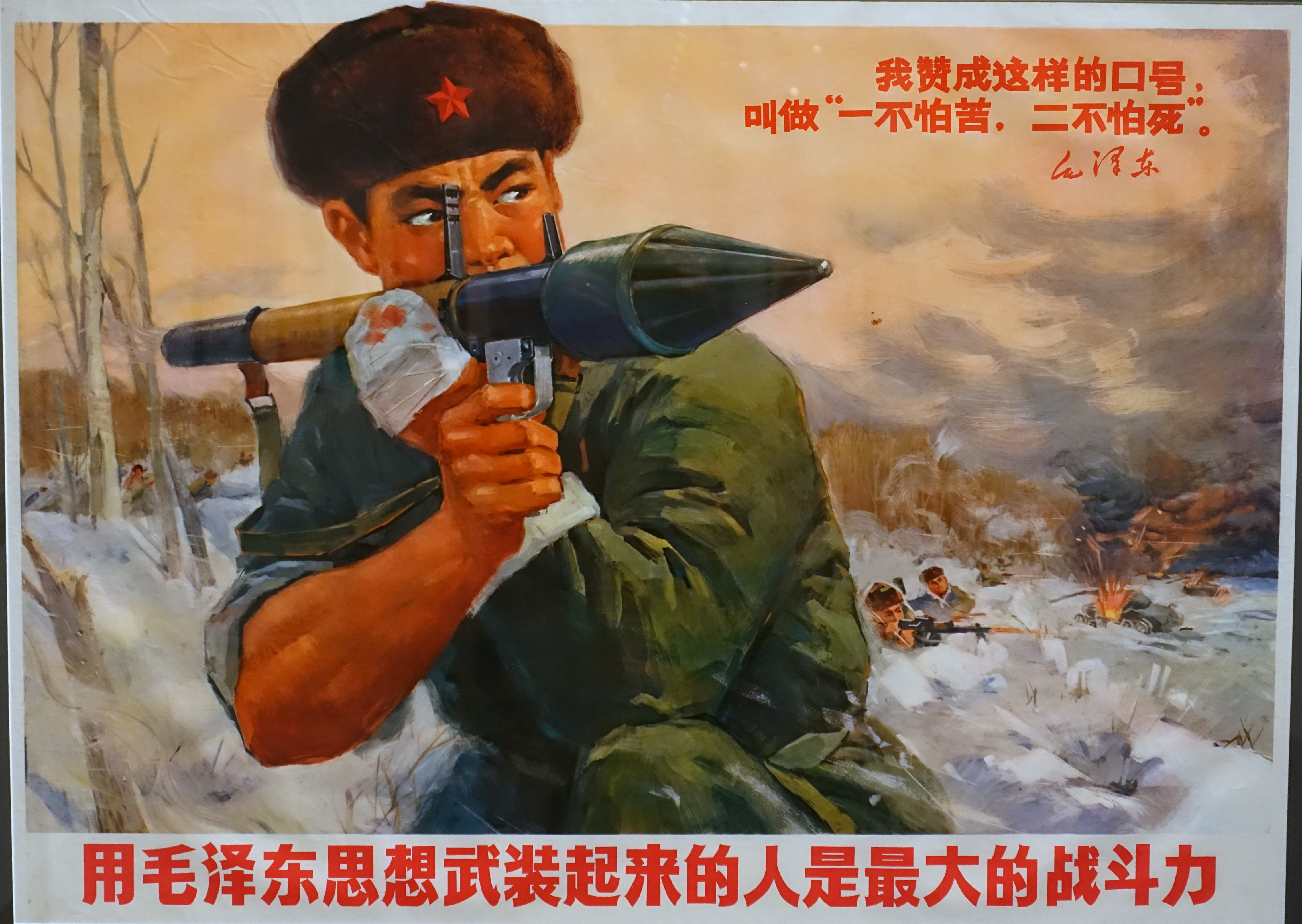 Exhibit in the Jordan Schnitzer Museum of Art, University of Oregon - Eugene, Oregon, USA.